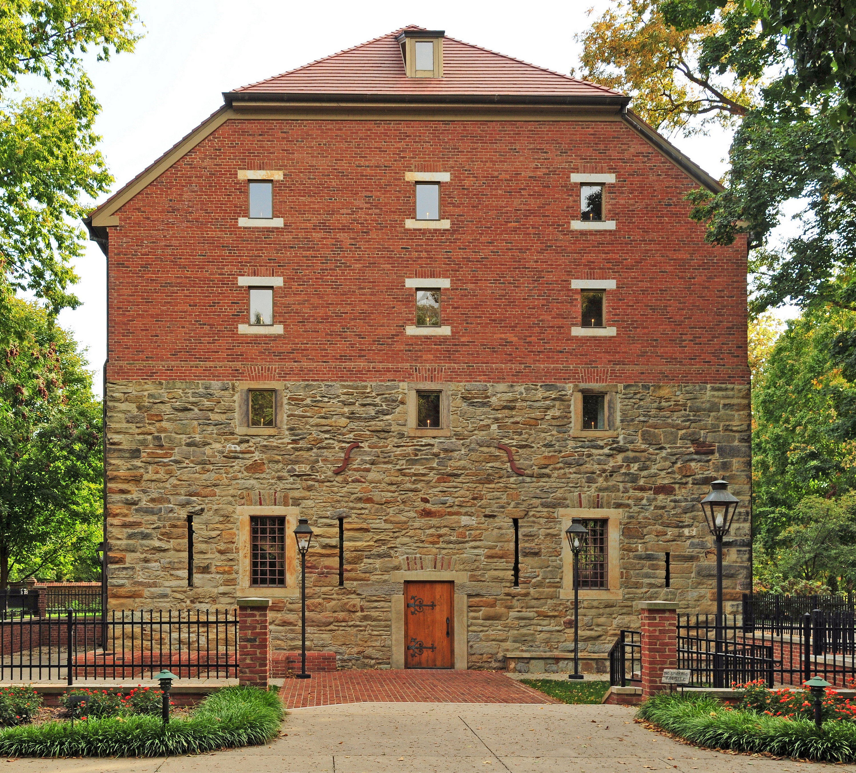 Rapp Granary in New Harmony, Indiana, completed in the year 1818, restored in 1997-1999.